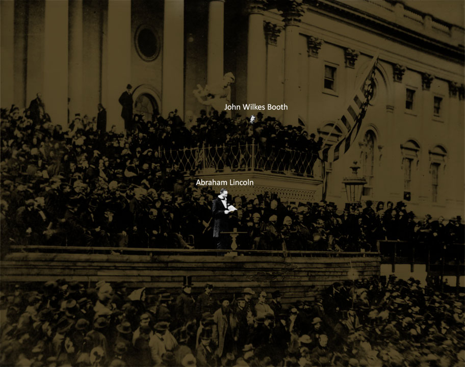 Lincoln's second inaugural address with Lincoln and John Wilkes Booth clearly visible